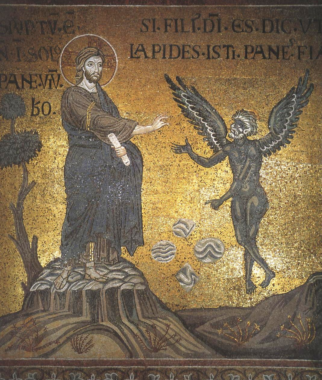 Christ's temptation - mosaic in Monreale Cathedral